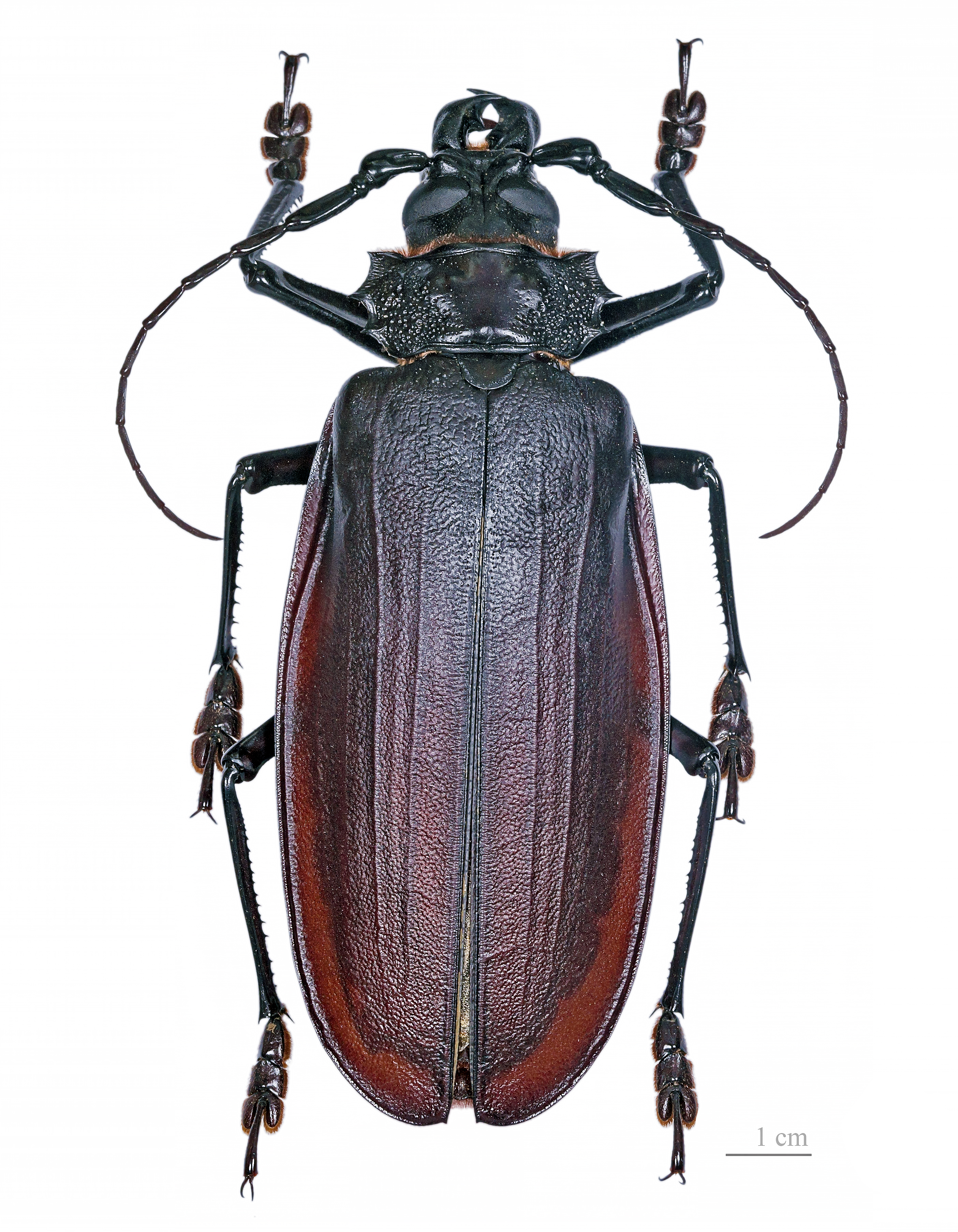 Titan beetle ♂ Locality : “RK4,5 route Cacao”, French Guiana